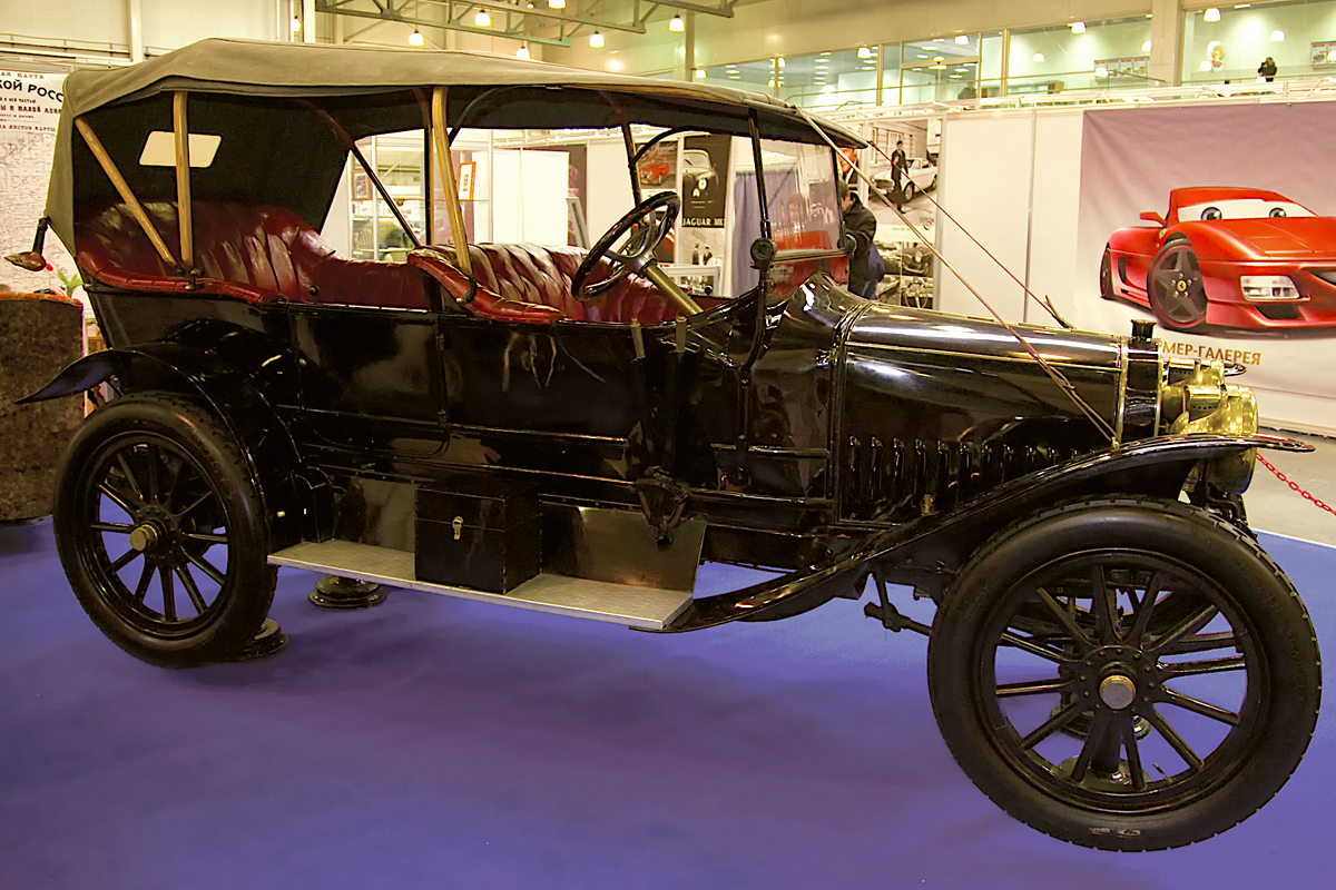 "Russo-Baltic" type K 12/20. (The Russian empire 1911г.) 600 cars Are let out, one has remained.